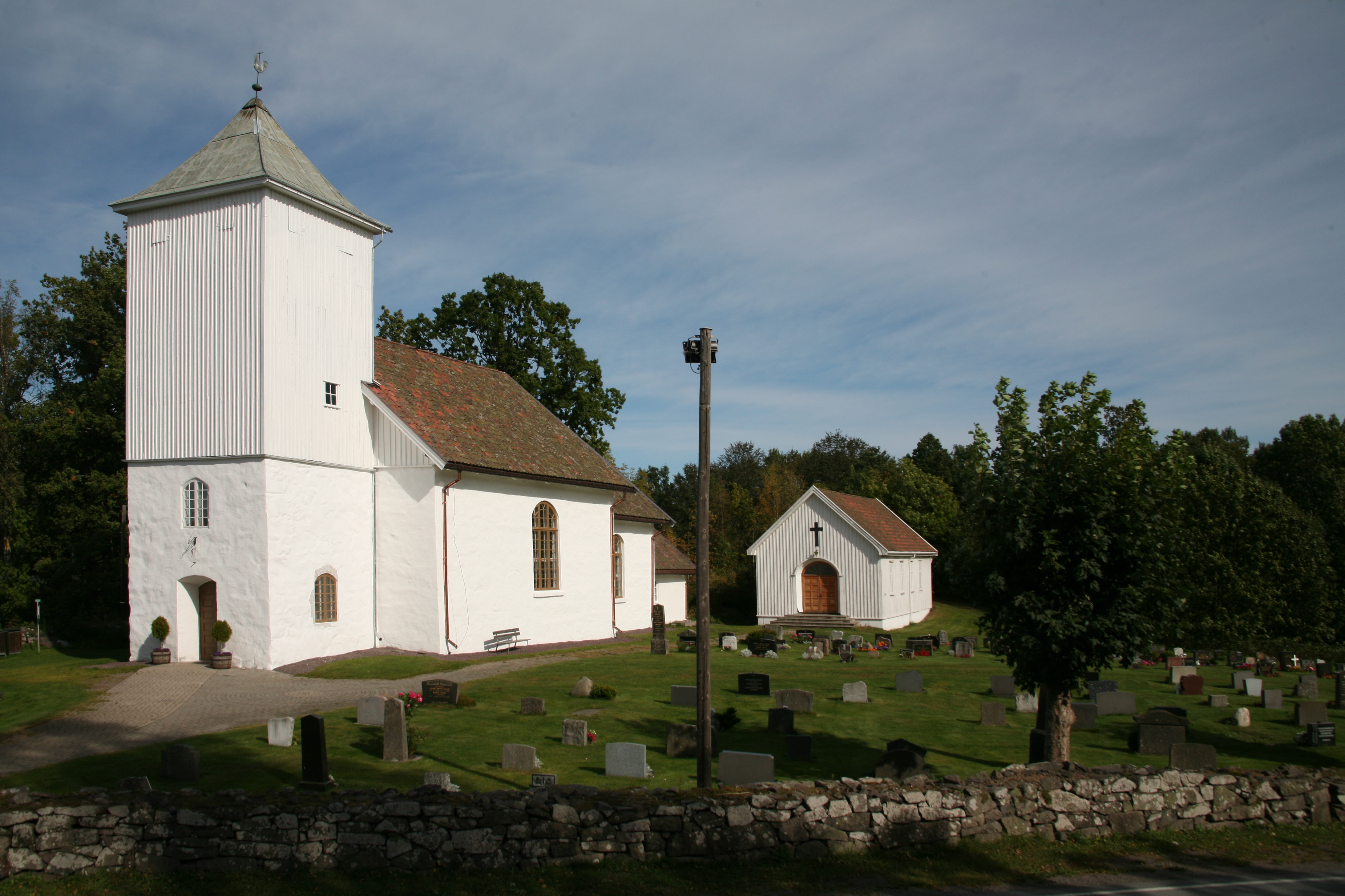 Picture of Nykirke kirke (Vestfold - Norway)